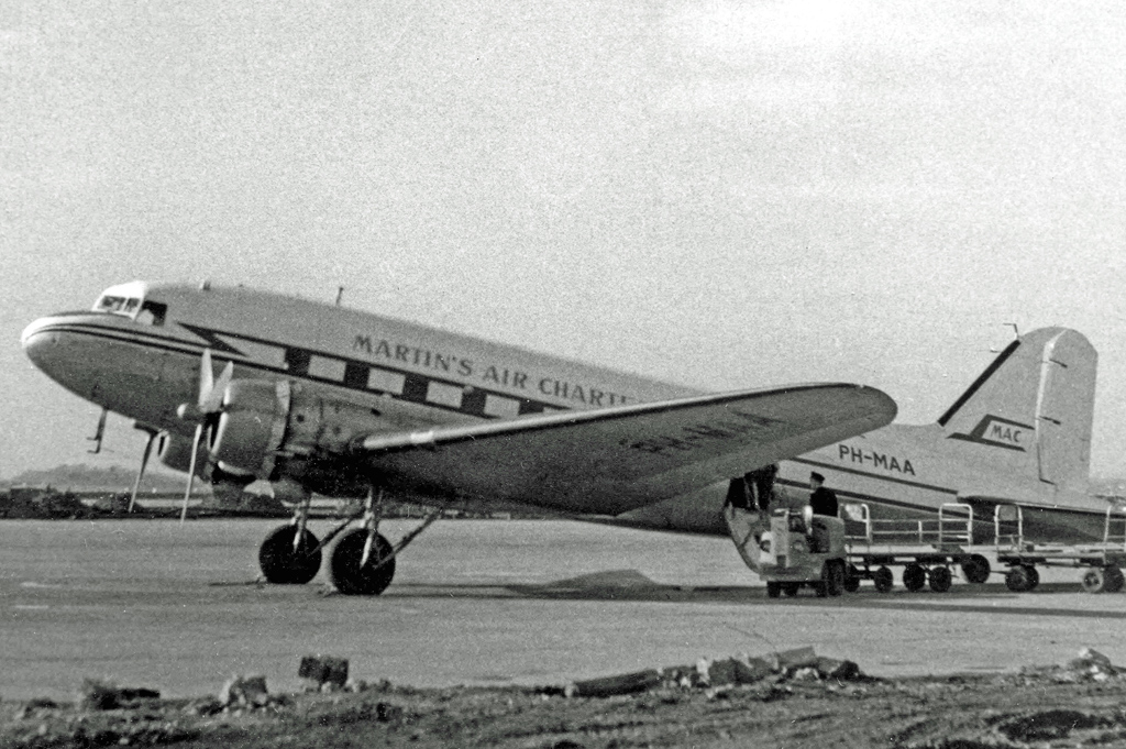 Martins Air Charter Douglas C-47B Dakota PH-MAA operating a freight flight through Manchester Airport in 1961